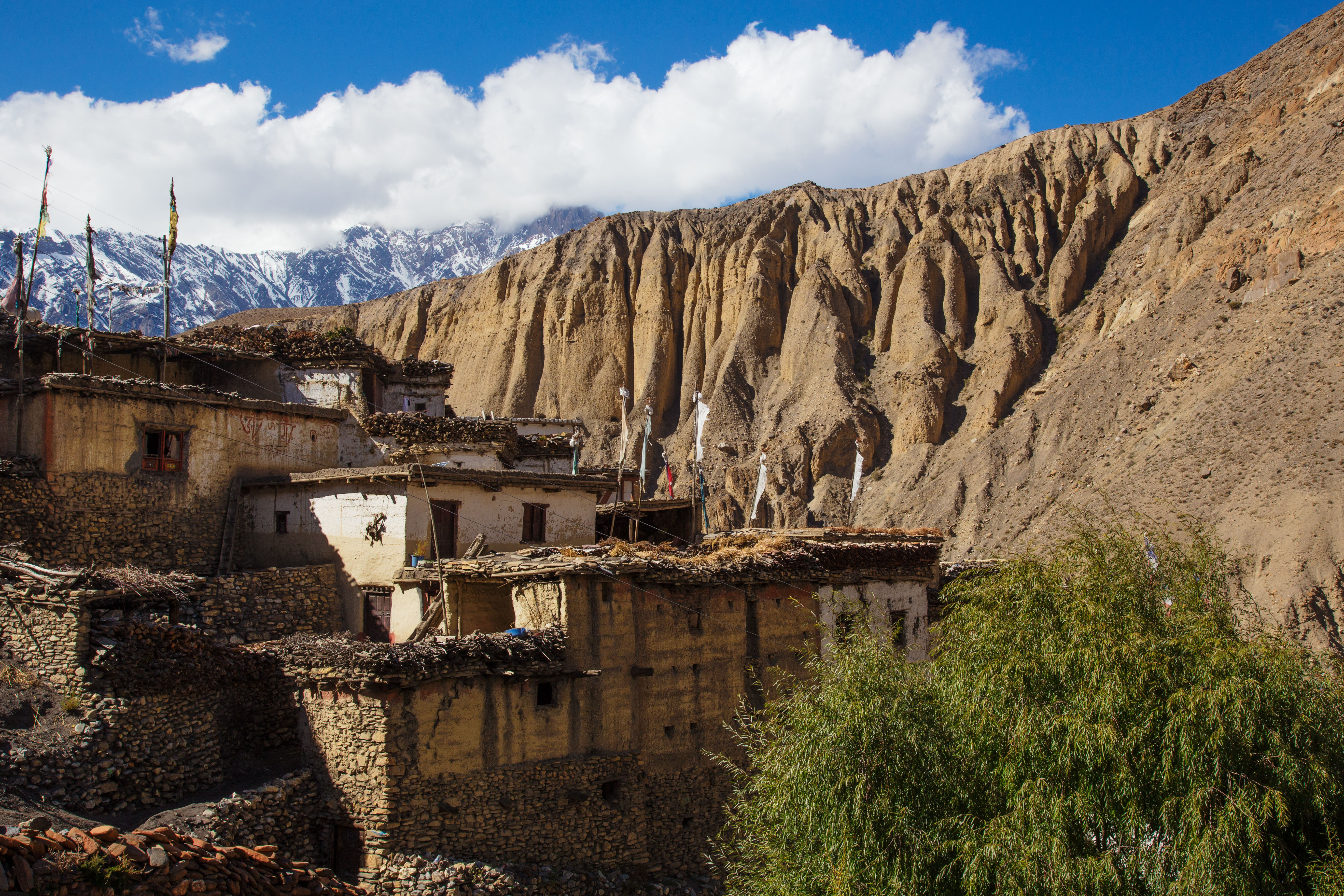 Lupra is a traditional village hidden in the Panda Khola gorges between Kagbeni and Jomsom. Far from trekking trails, the village of Lupra is managed to maintain much of its charm intact as well as part of its pre-Buddhist shamanistic belief, Bön religion. The village is made of tightly packed traditional houses Thakali (ethnolinguistic group originated from the Thak Khola region in Mustang). The walls are made of adobe and cobble coming form the rivers around. The coatings are composed of pigmented soil from nearby cliffs. There is a perfect harmony between habitat and the natural environment. Rural village life is very little affected by the turmoil of the modern world.